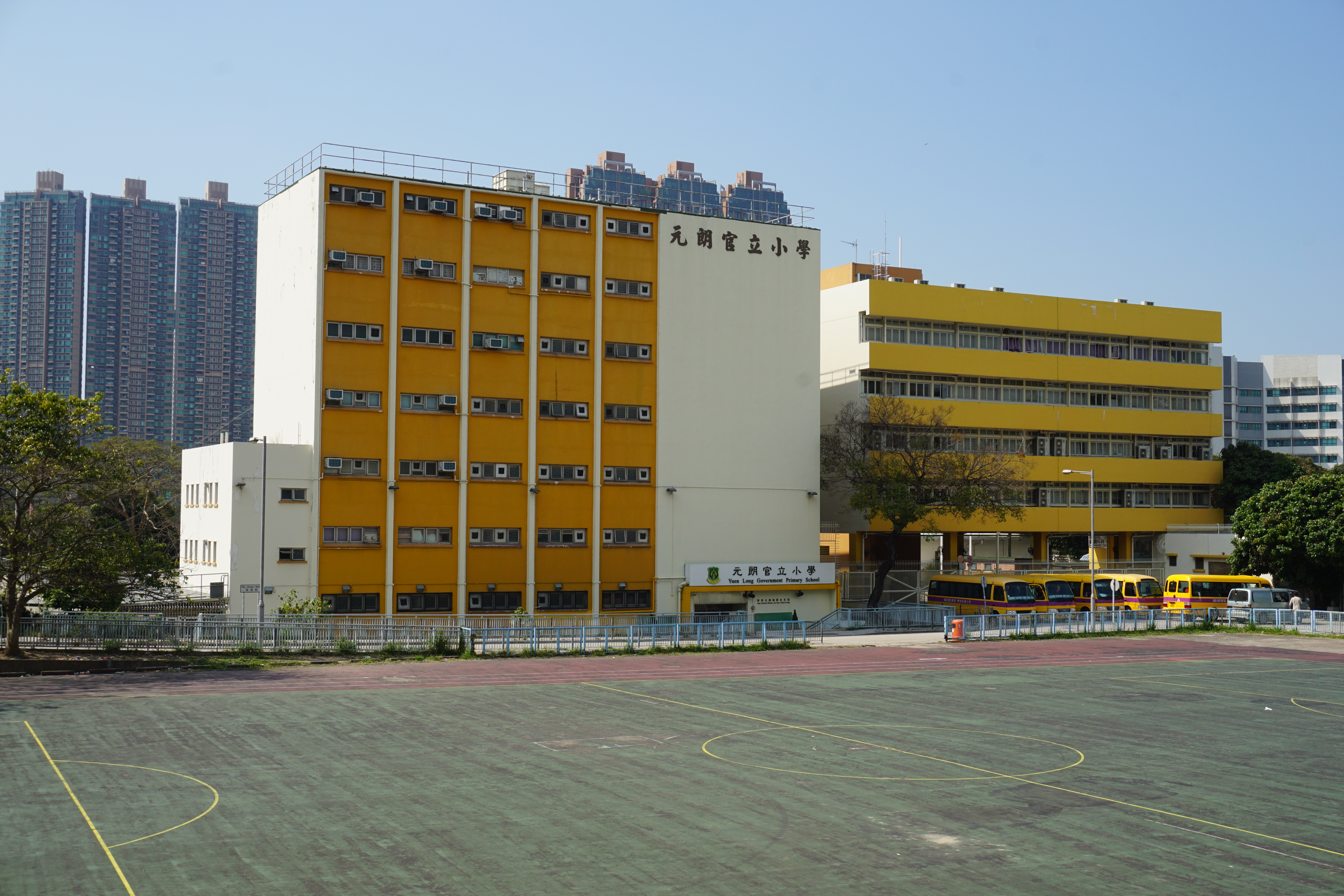 Government Primary School in Yuen Long, Hong Kong.